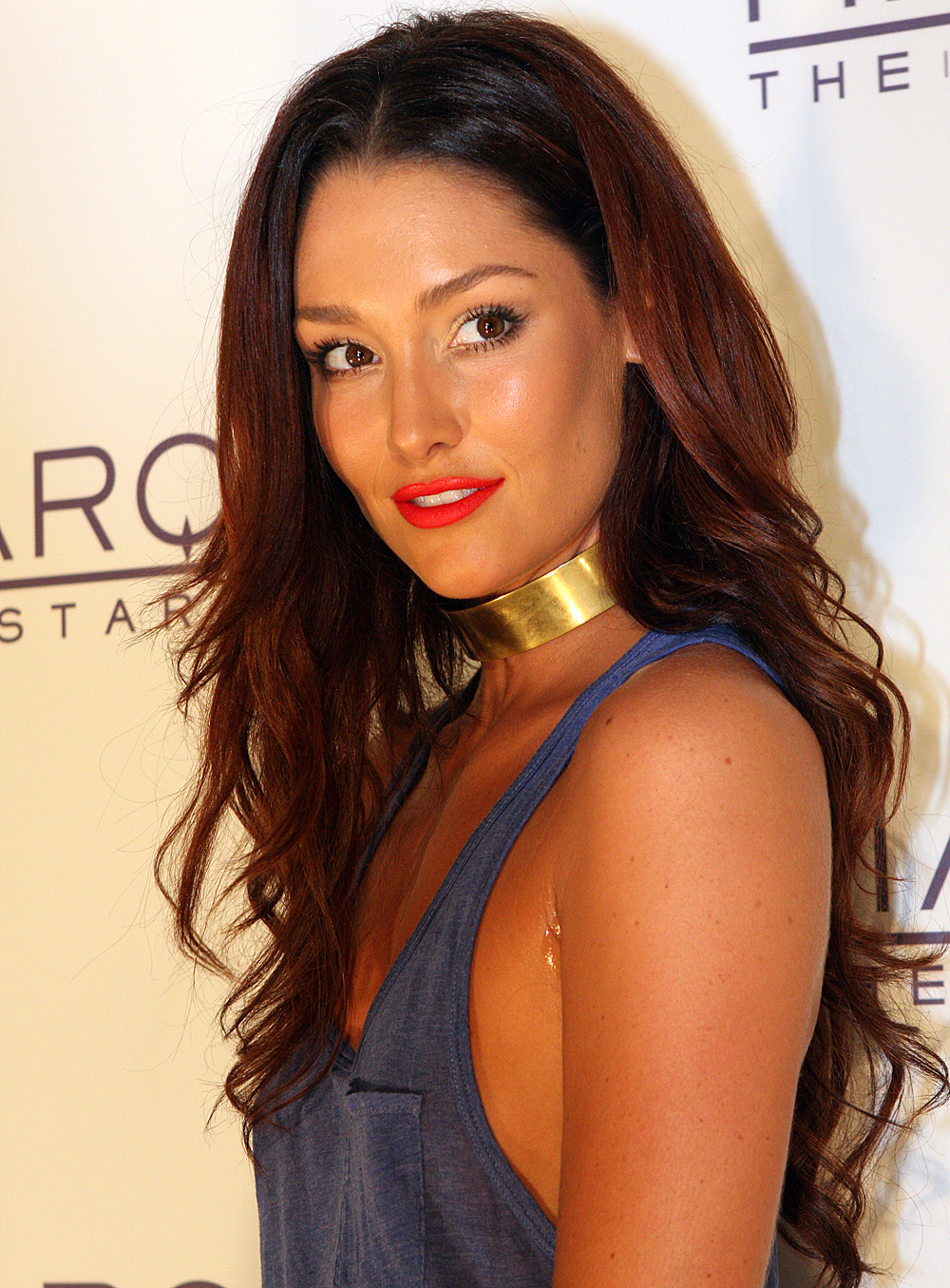 Erin McNaught at the Marquee grand opening, The Star, Sydney 2012.